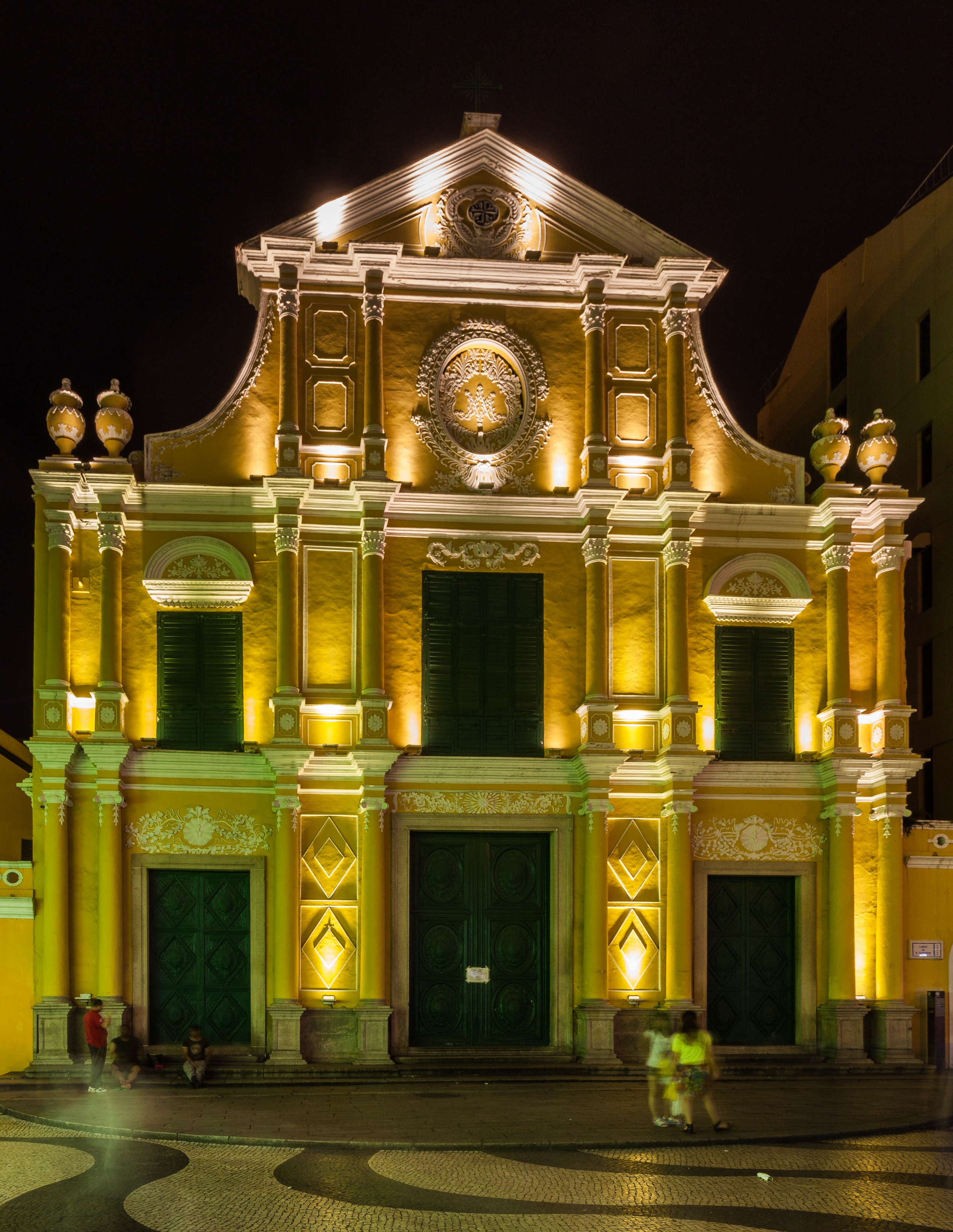 Church of Saint Dominic, Macau